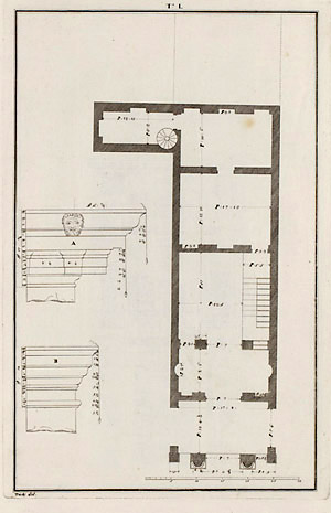 Casa Cogollo in Vicenza. Drawing from Ottavio Bertotti Scamozzi, 1776